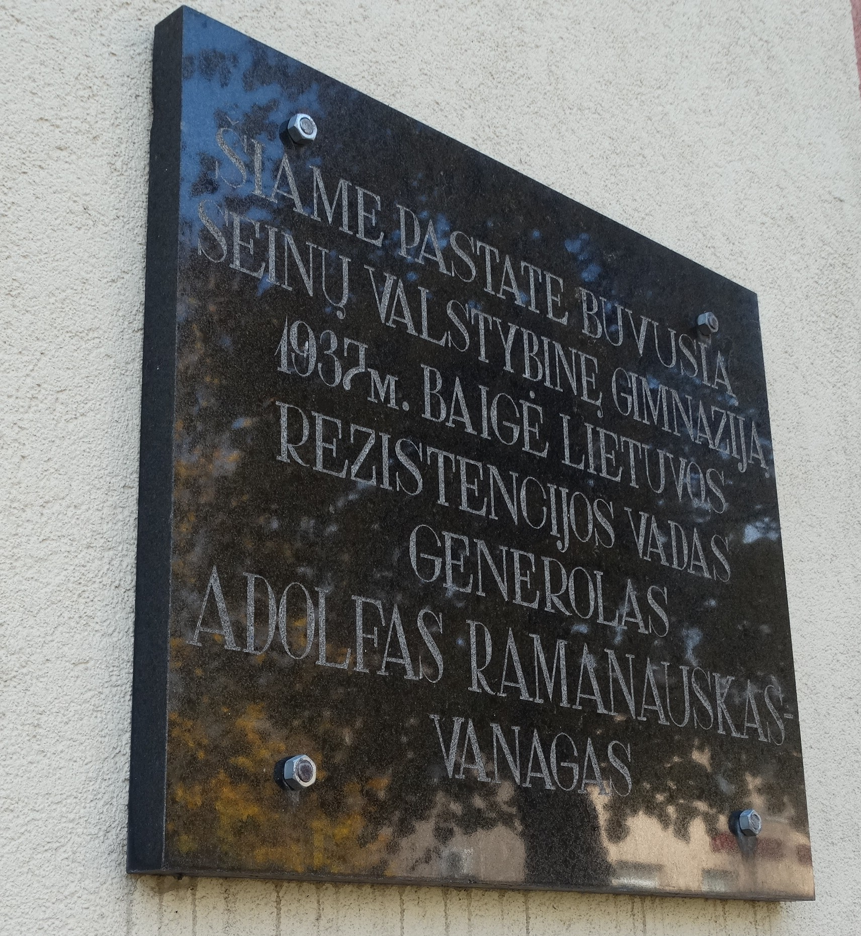 Memorial plaque to Adolfas Ramanauskas, gymnasium, Lazdijai, Lithuania